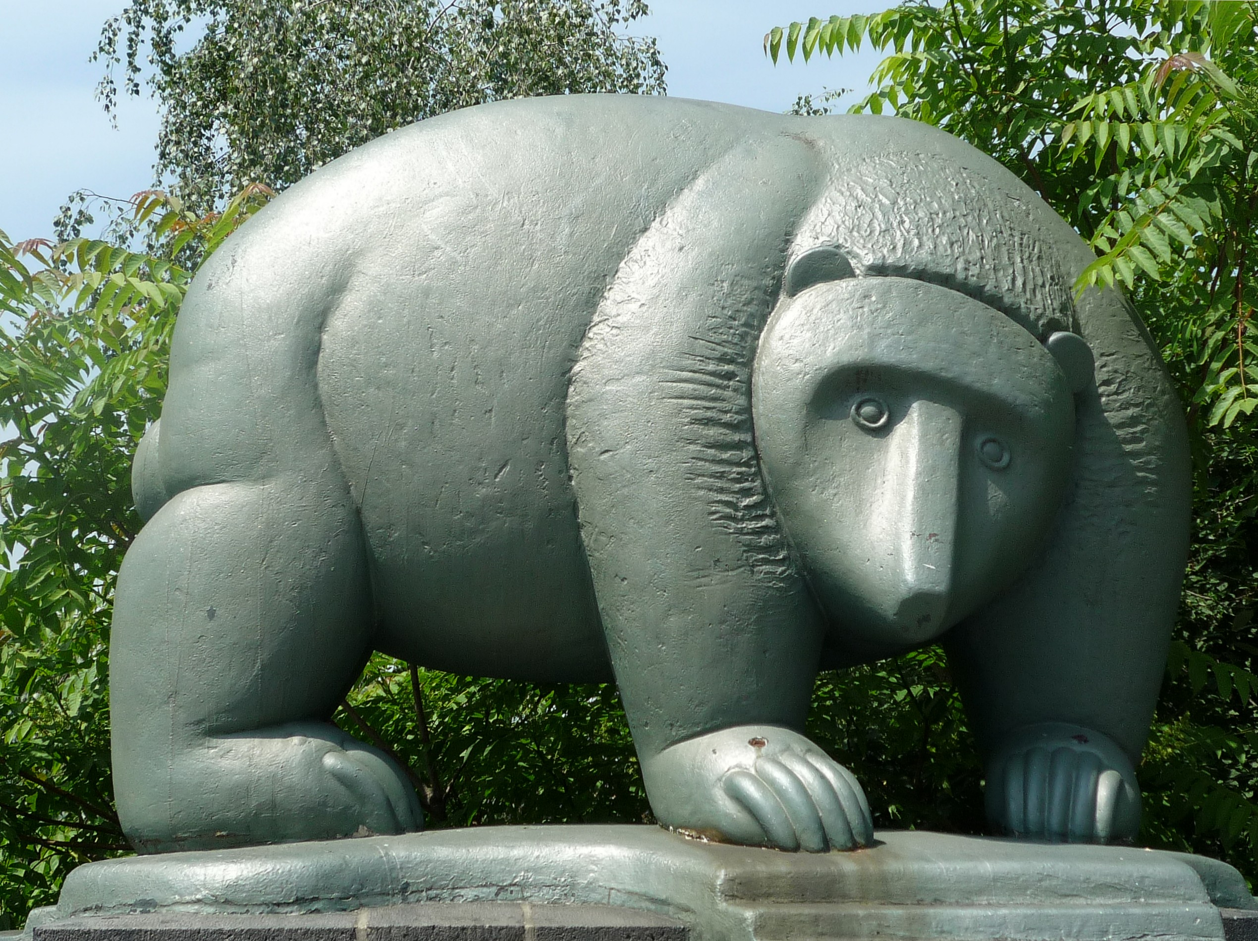 Sculpture "Bear", made by Günter Anlauf in 1981, at Moabiter Brücke in Berlin.